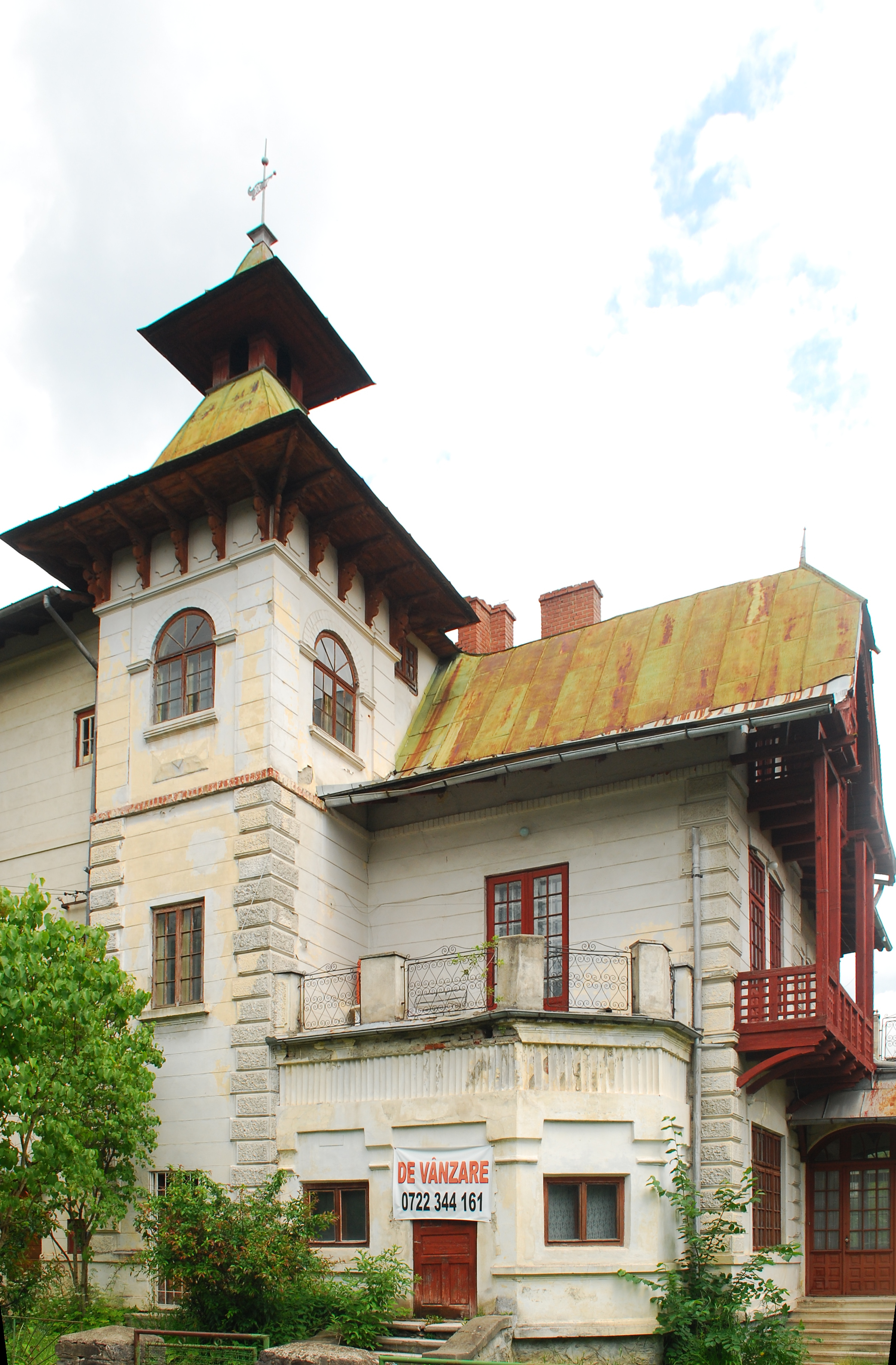 Augustin Mesian and Dumitru Pastia house in Sinaia, Prahova County, Romania